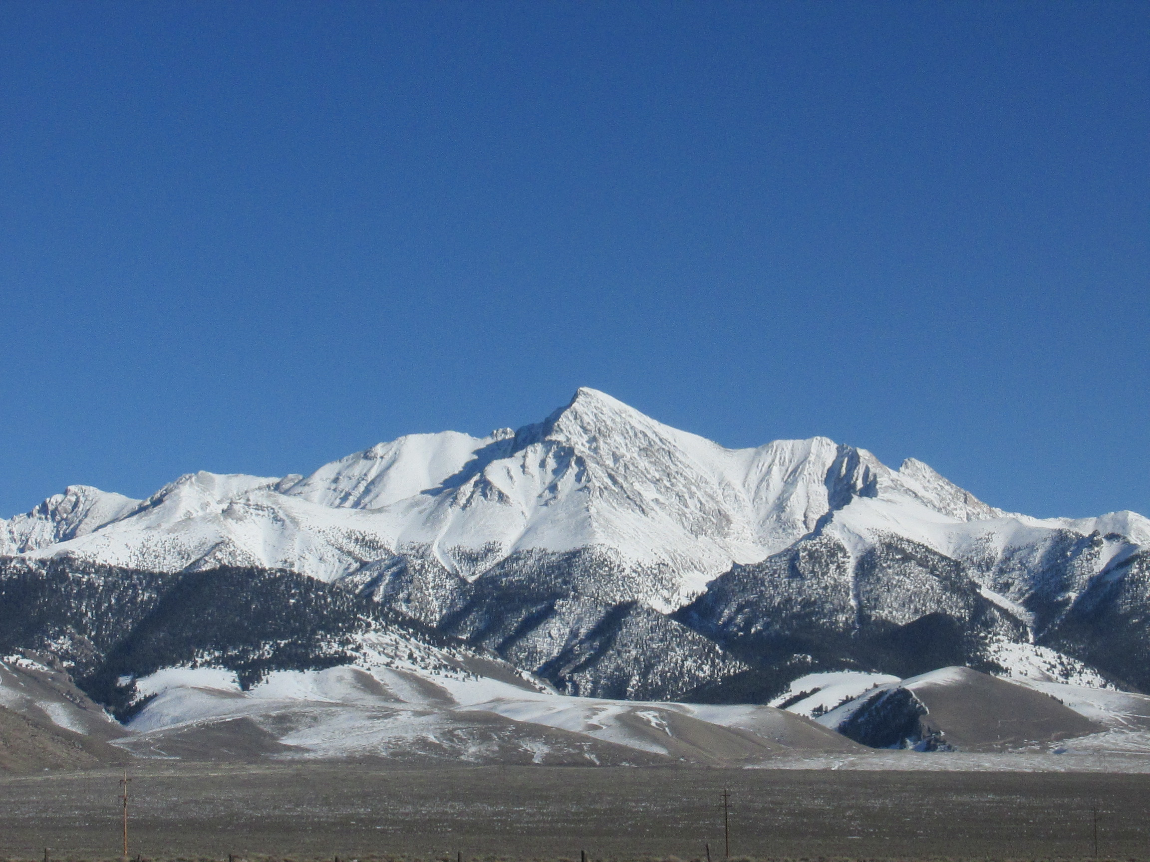 Borah Peak in Idaho, the state's highest mountain. (12,667' / 3,861 m)